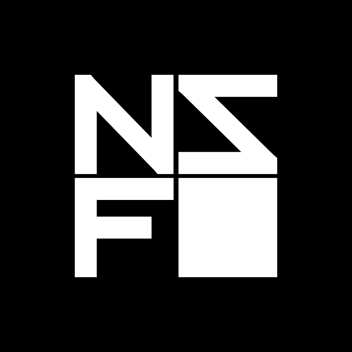 No Sleep Festival logo (the lower right square contains the year of the festival)